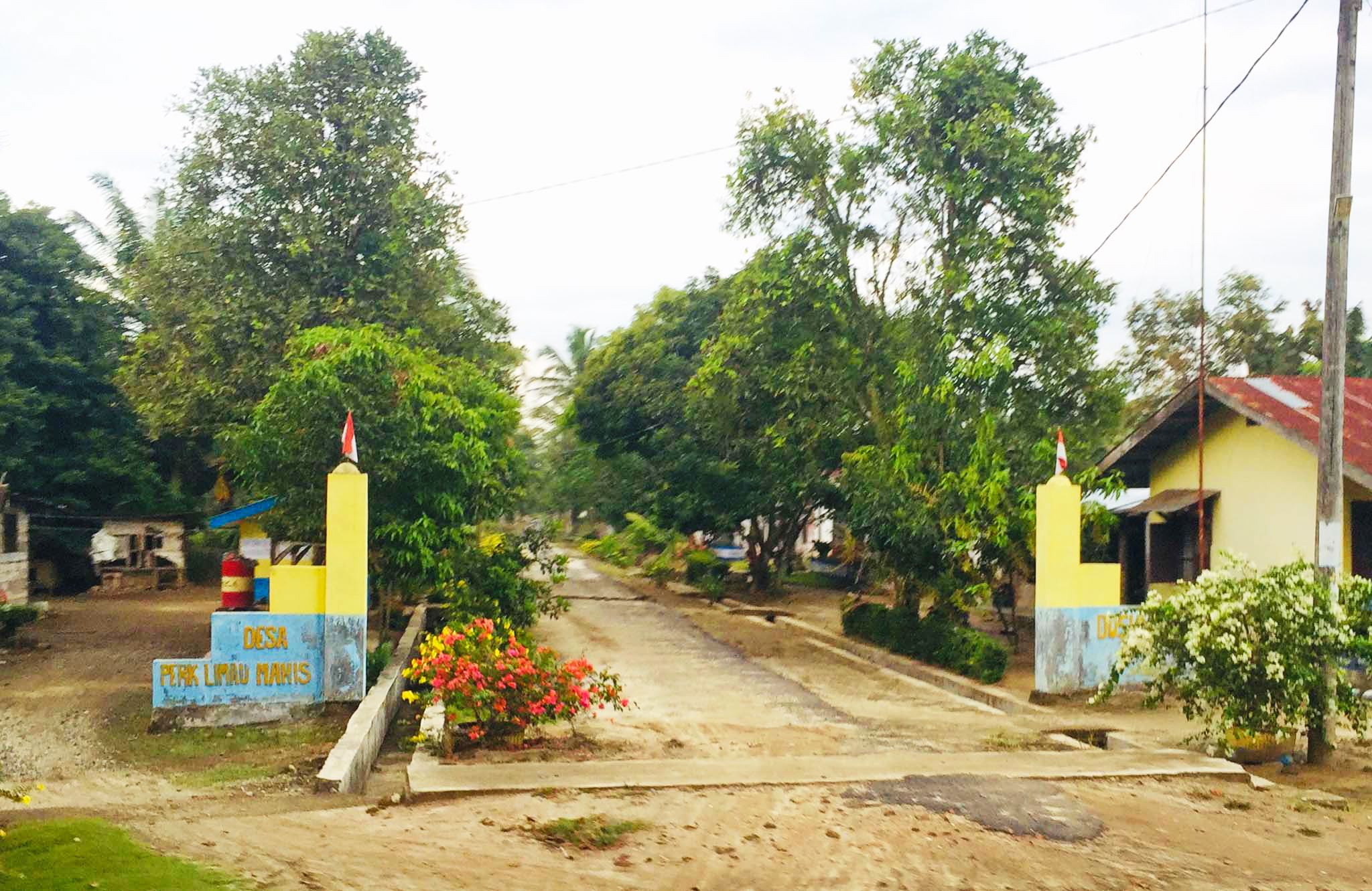 welcome gate to Perkebunan Limau Manis, Lima Puluh, Batu Bara